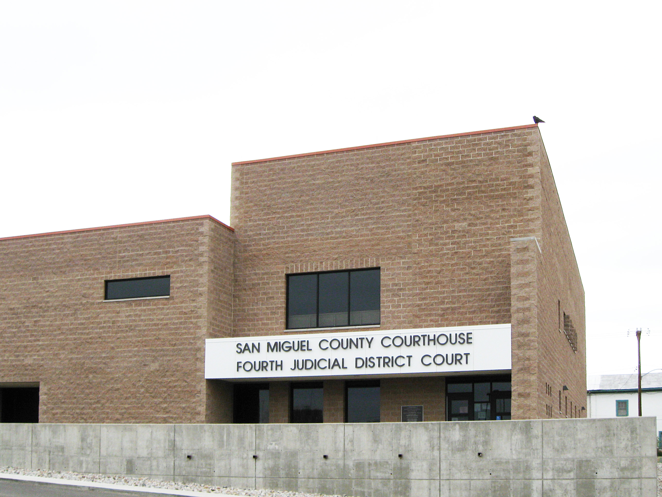 San Miguel County (New Mexico) Court House, located at 500 West National Street in Las Vegas, New Mexico.